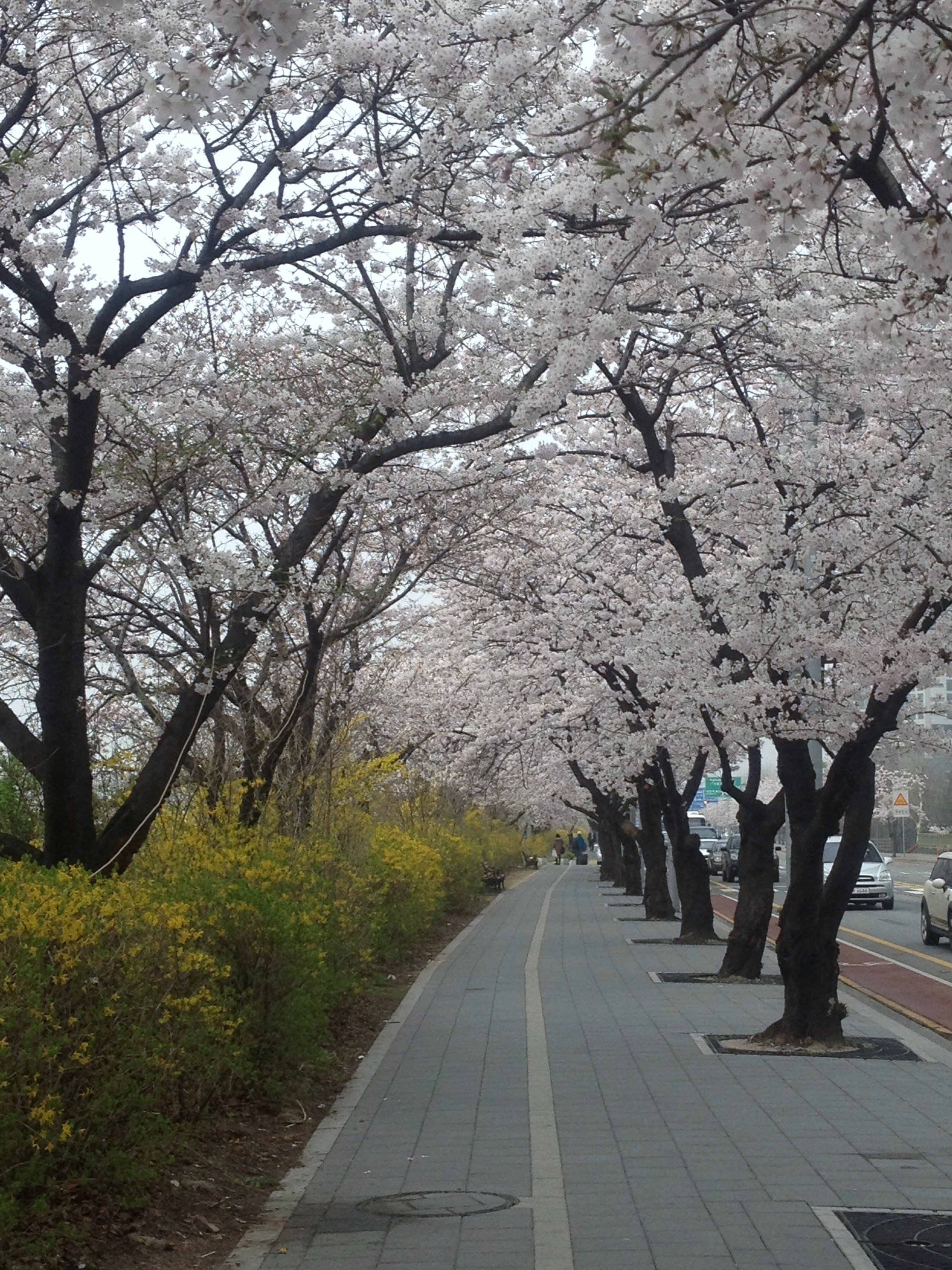 took this picture in cherry blossom festival in korea